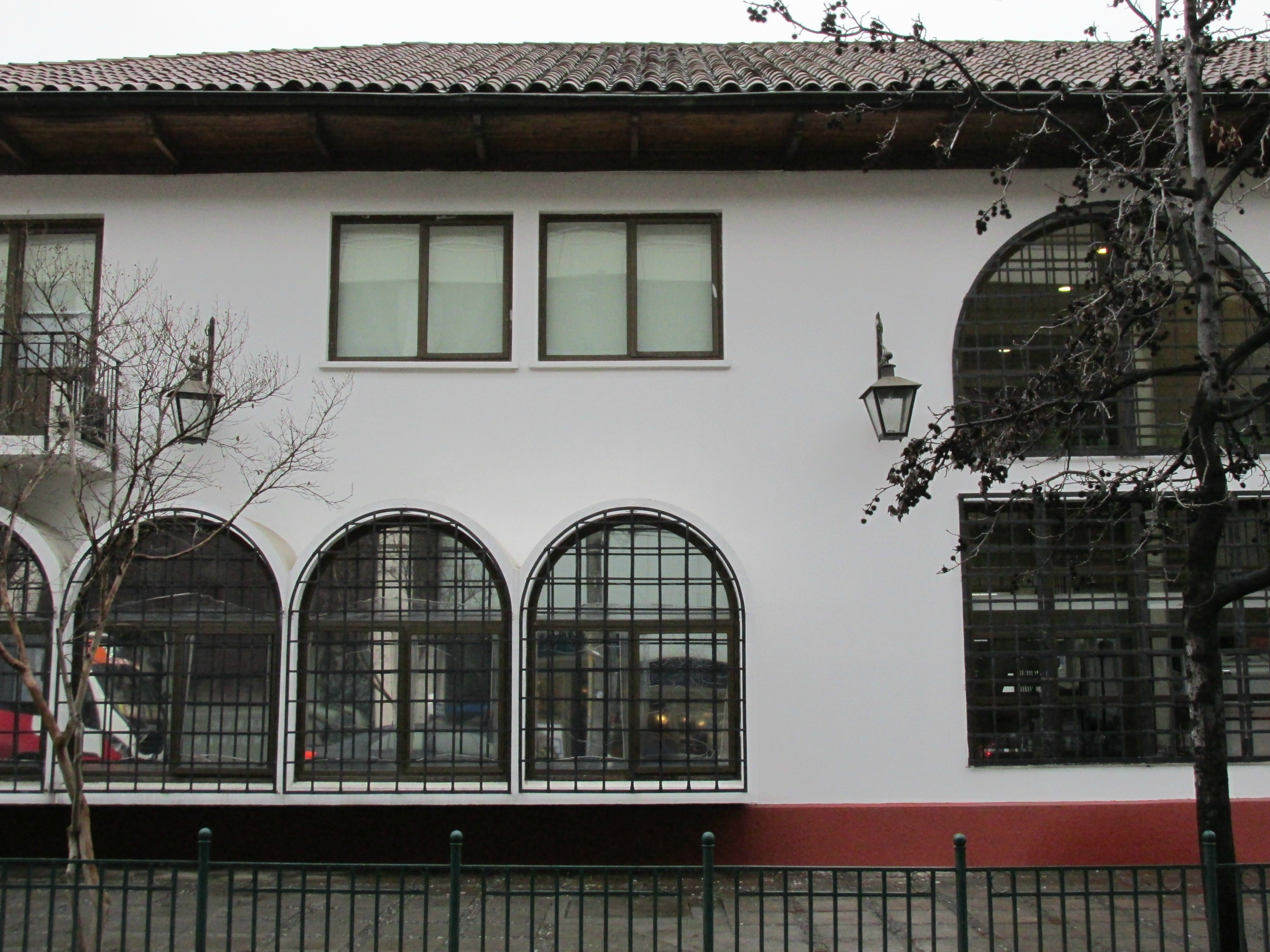 Sede del Gobierno Regional de O'Higgins, localizado en la ciudad de Rancagua, Chile.